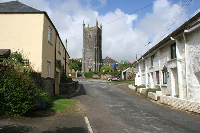 The village of Lanreath in Cornwall, UK, showing the church